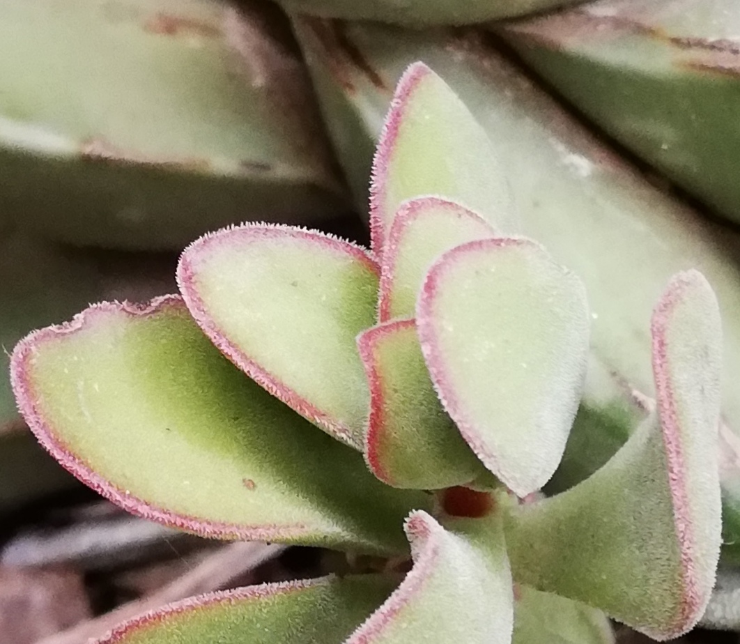 Crassula atropurpurea var muirii